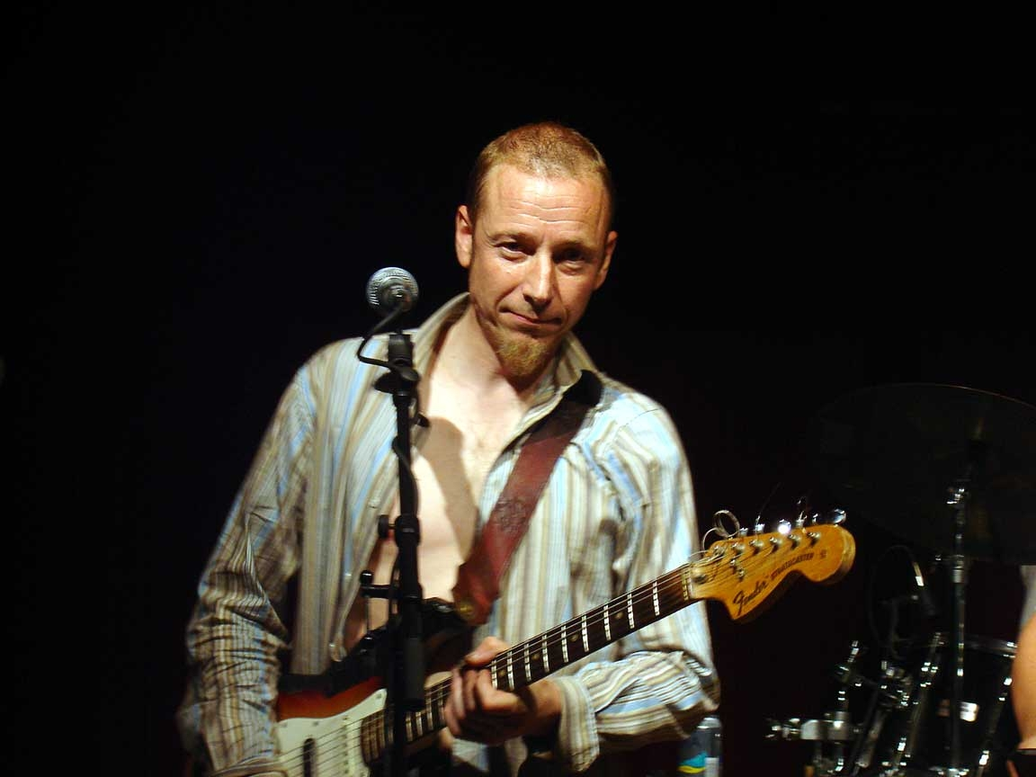 Live picture of swedish guitarrist Fredrik Augustin, Måns Mossa 2005.